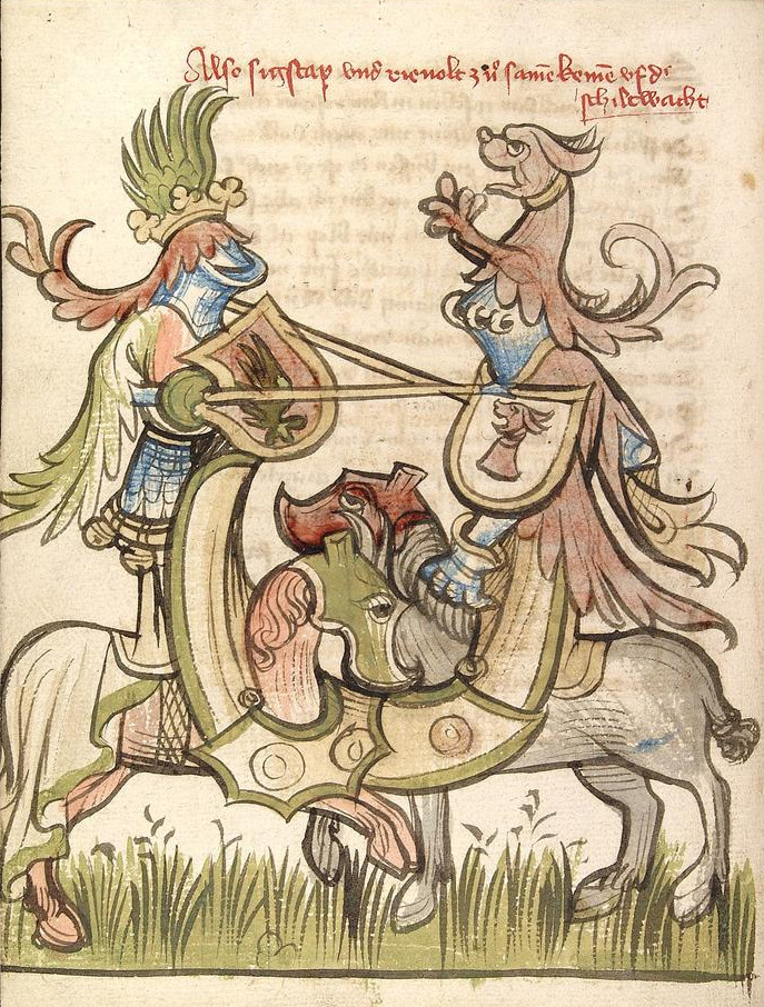 duel of Sigstap and Rienolt, scene from Rosengarten zu Worms, full page watercolour illustration of an early 15th c. manuscript from the attributed to the "Alsatian workshop of 1418" (either "Zeichner D" or "Maler IV"). Original caption: Also sigstap vnd rienolt zuo same(n) keme(n) vf d(er) schildwacht caption at : "Zweikampf zwischen Sigstapp und Reinholt"